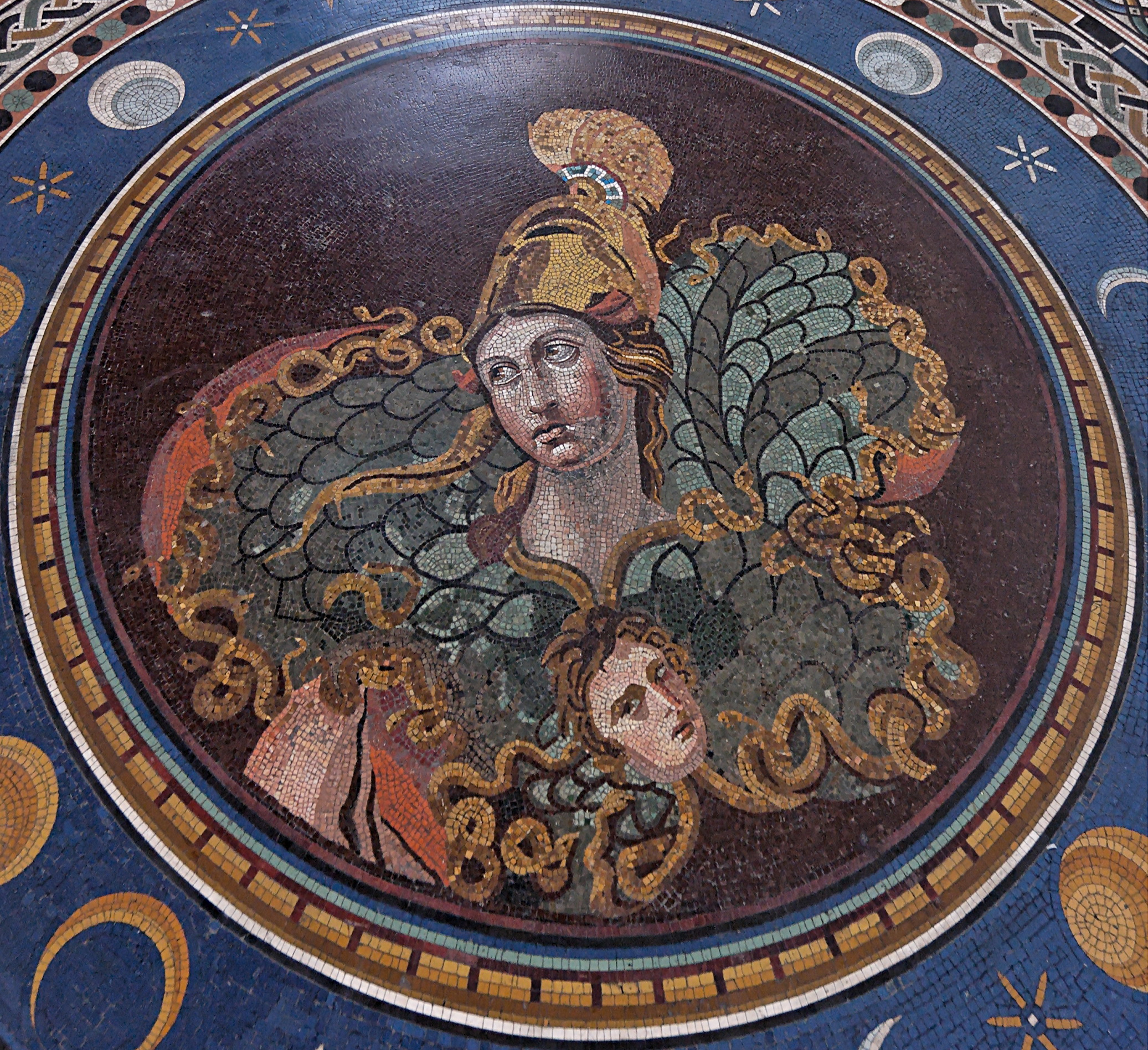 Tondo with Athena and aegis. Roman mosaic from the 3rd century CE framed with a modern mosaic from the 18th century. From Tusculum.